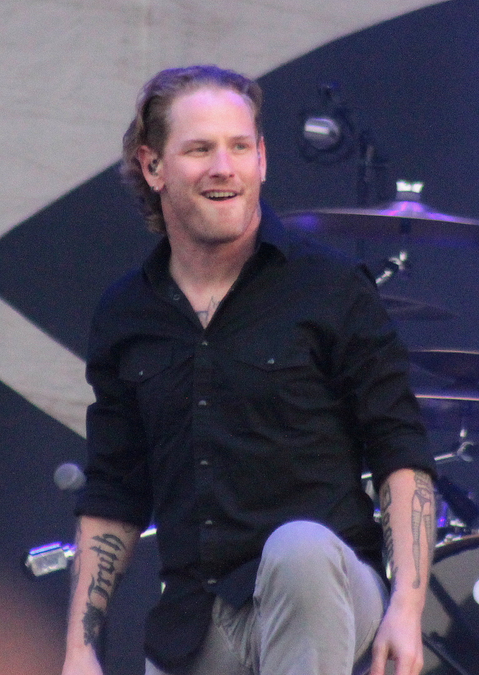 A cropped version of File:W0919-Hellfest2013 StoneSour CoreyTaylor 71660-Crop.JPG